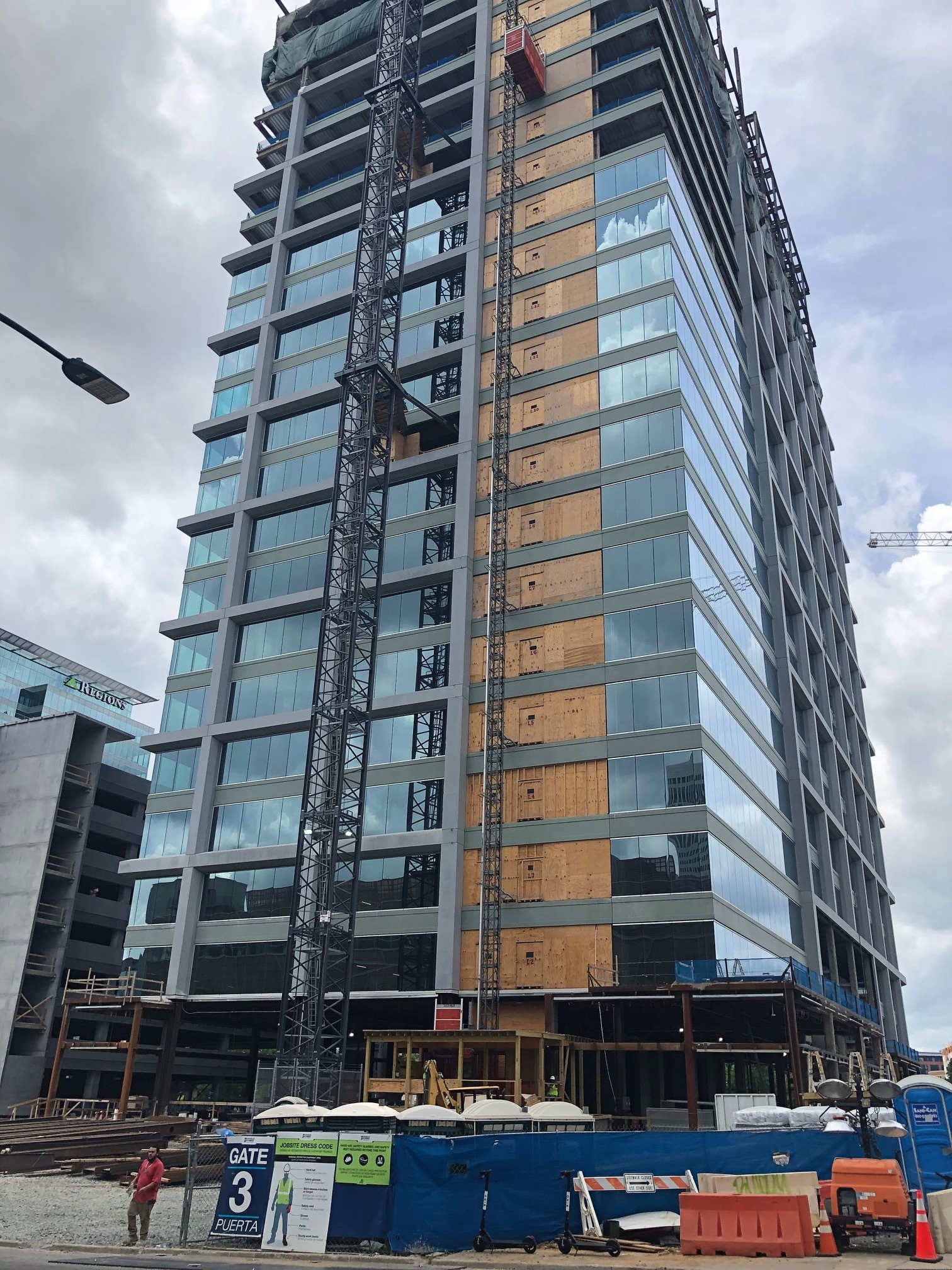 Ally Center under construction June 2019